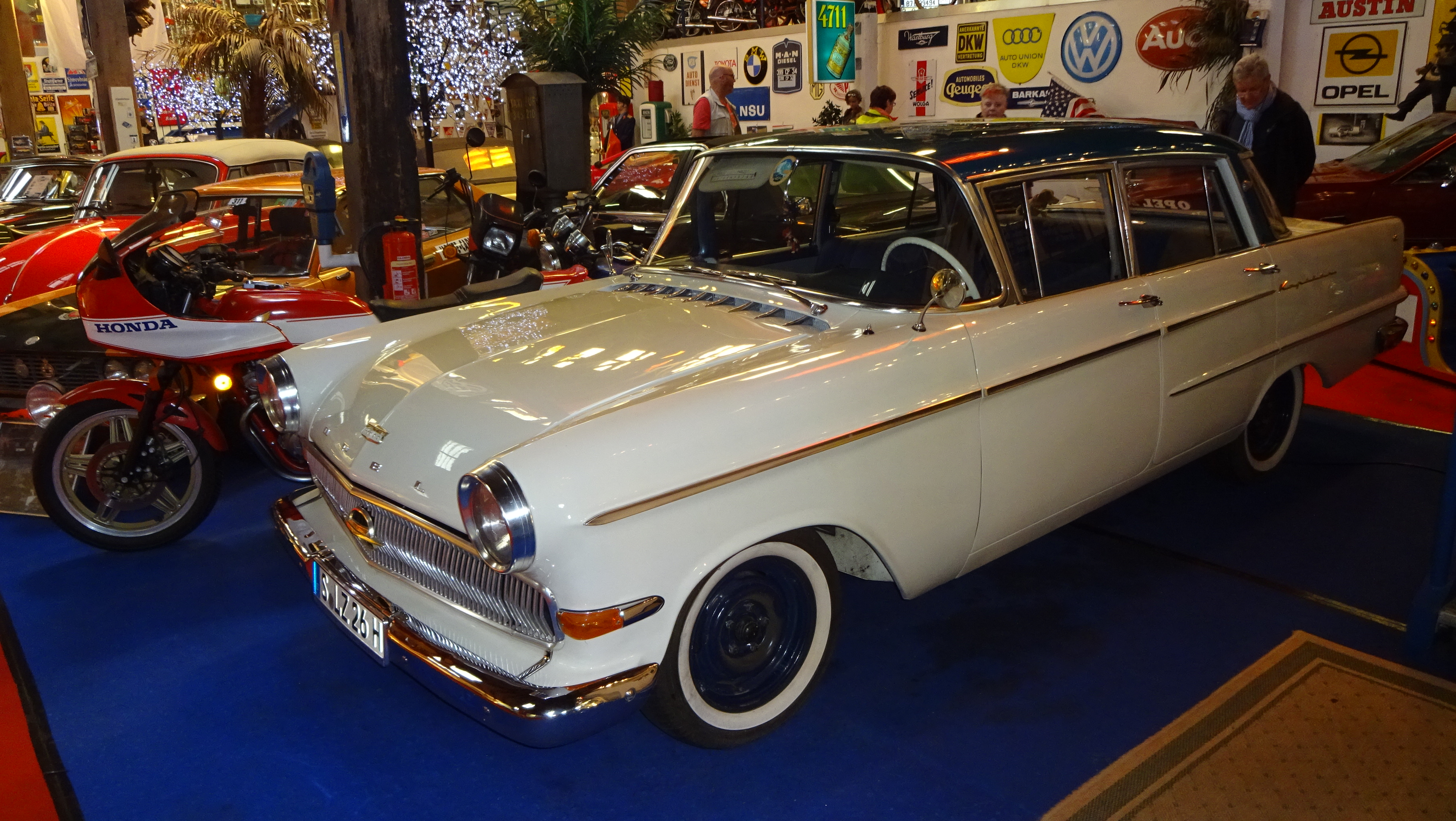 Opel Kapitan Car